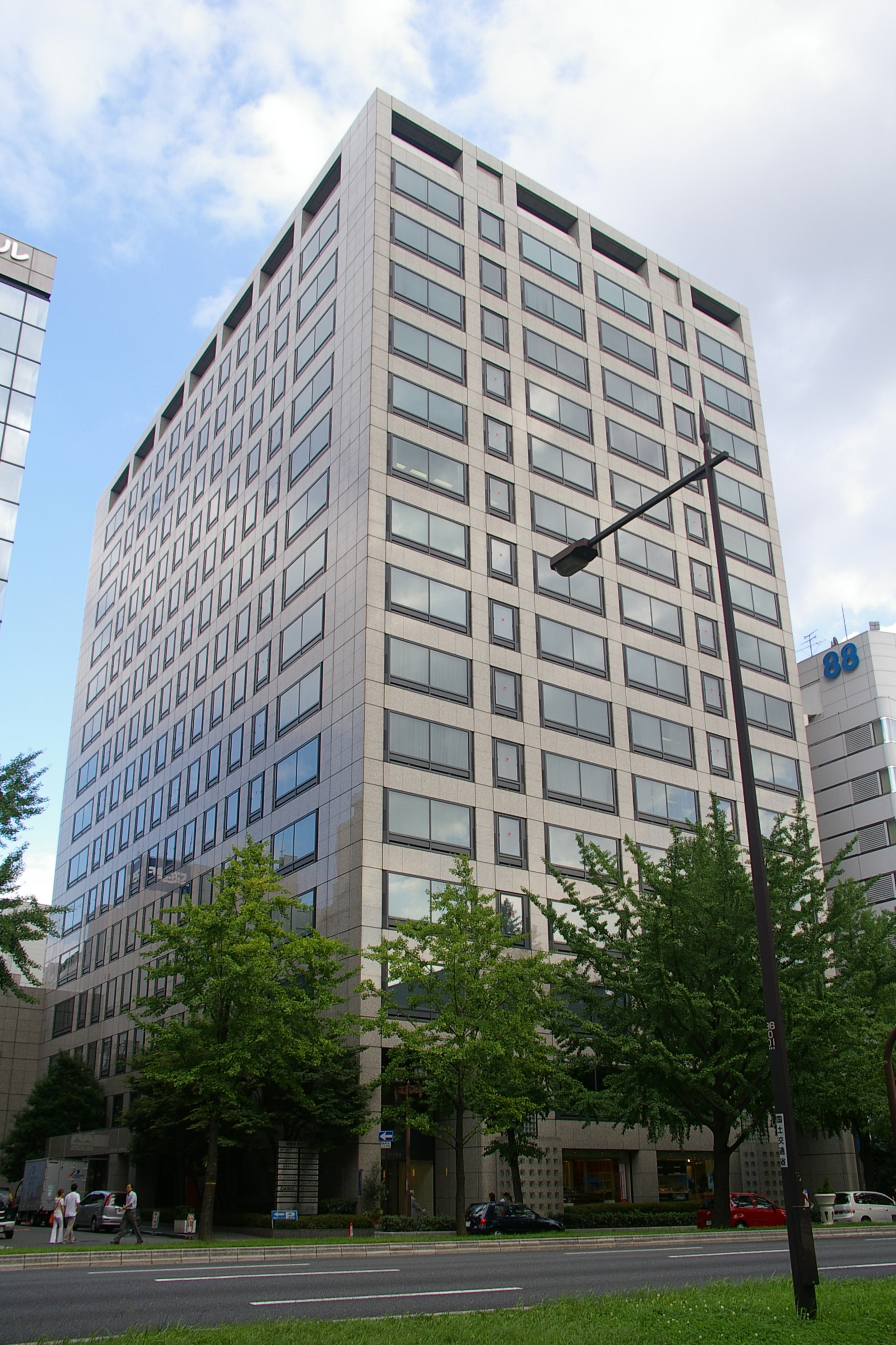 Photograph of Midosuji Daiwa Building, head office of Daiwabo Co., Ltd. in Chuo-ku, Osaka, Osaka Prefecture, Japan.